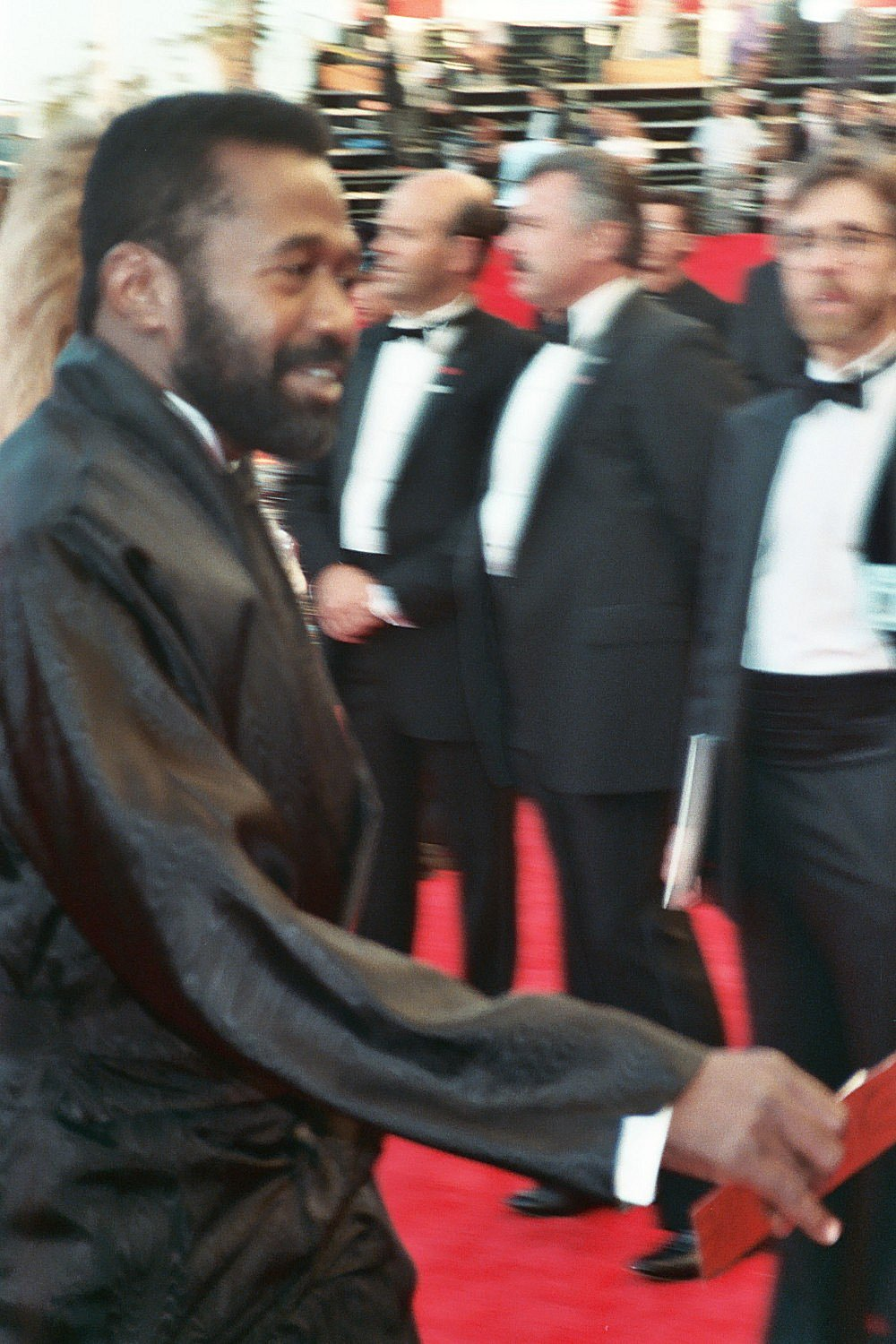 Ben Vereen arrives at the 61st Annual Academy Awards, 1989.